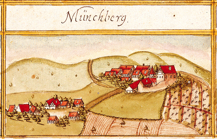 View of Mönchberg, Herrenberg, from the forest register books created by Andreas Kieser